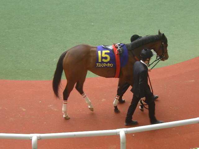 Aston Machan at the Okasho horserace in 2007